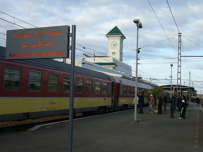 Casa Voyageurs train station in Casablanca, Morocco